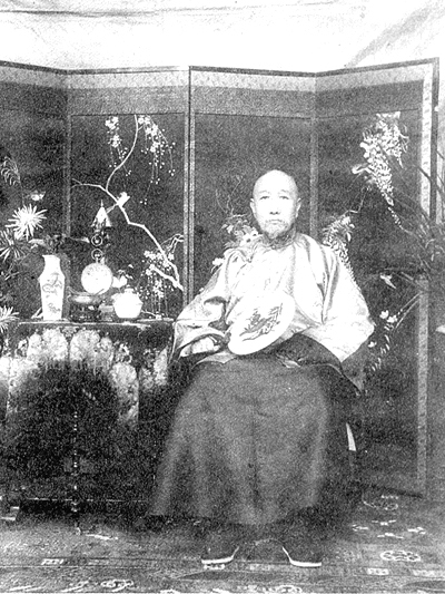 Lu_Chuanlin